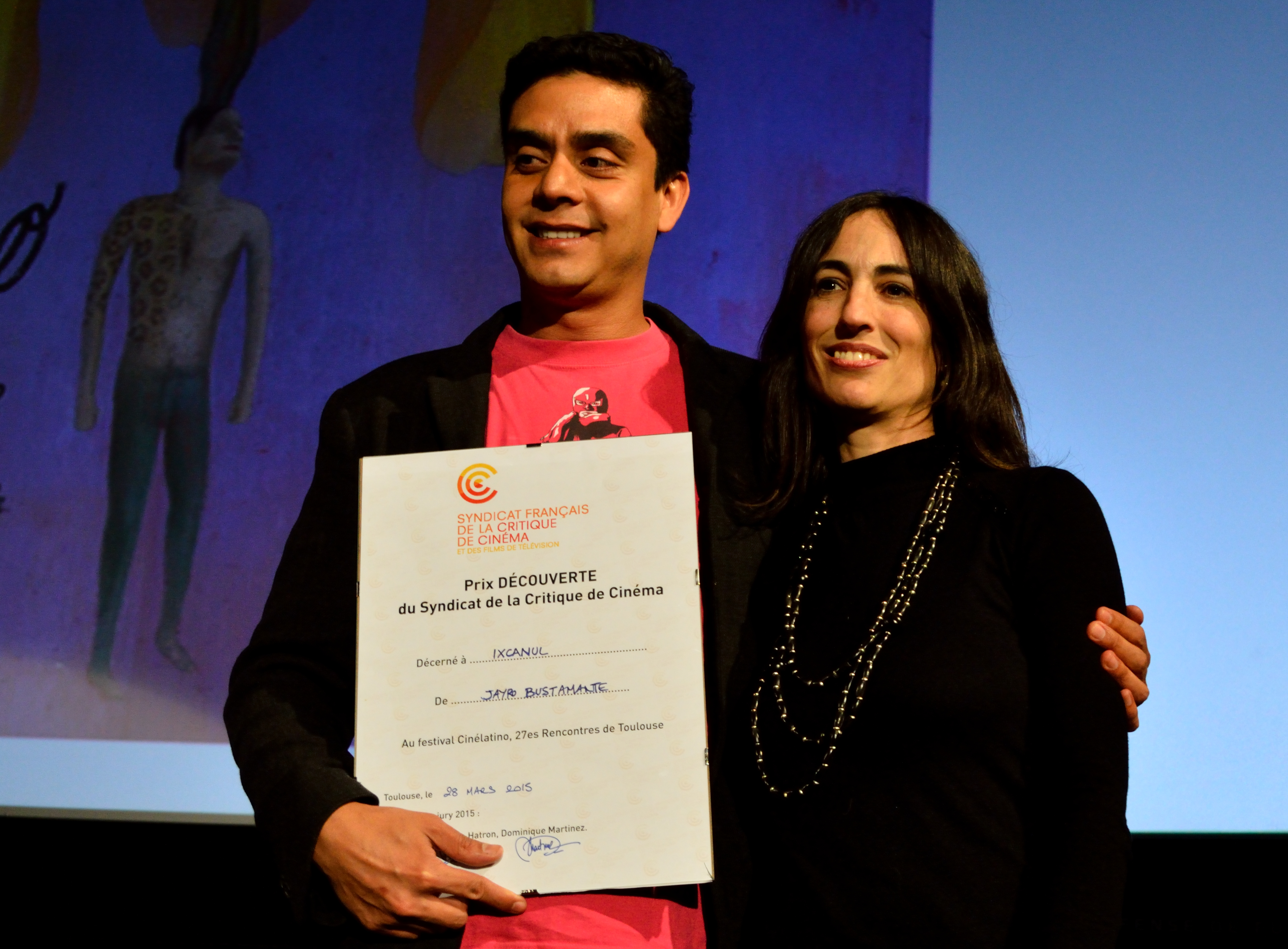 Guatemalan director Jayro Bustamante receiving the Prix Découverte for Ixcanul, along with the film producer.